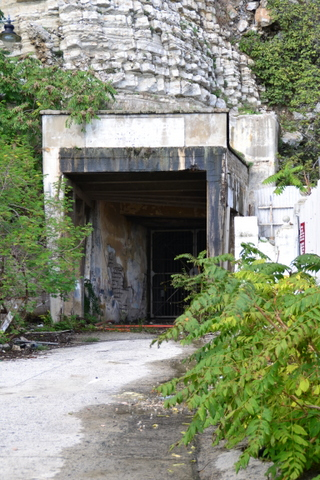 Exit to William's Way, a tunnel in Gibraltar